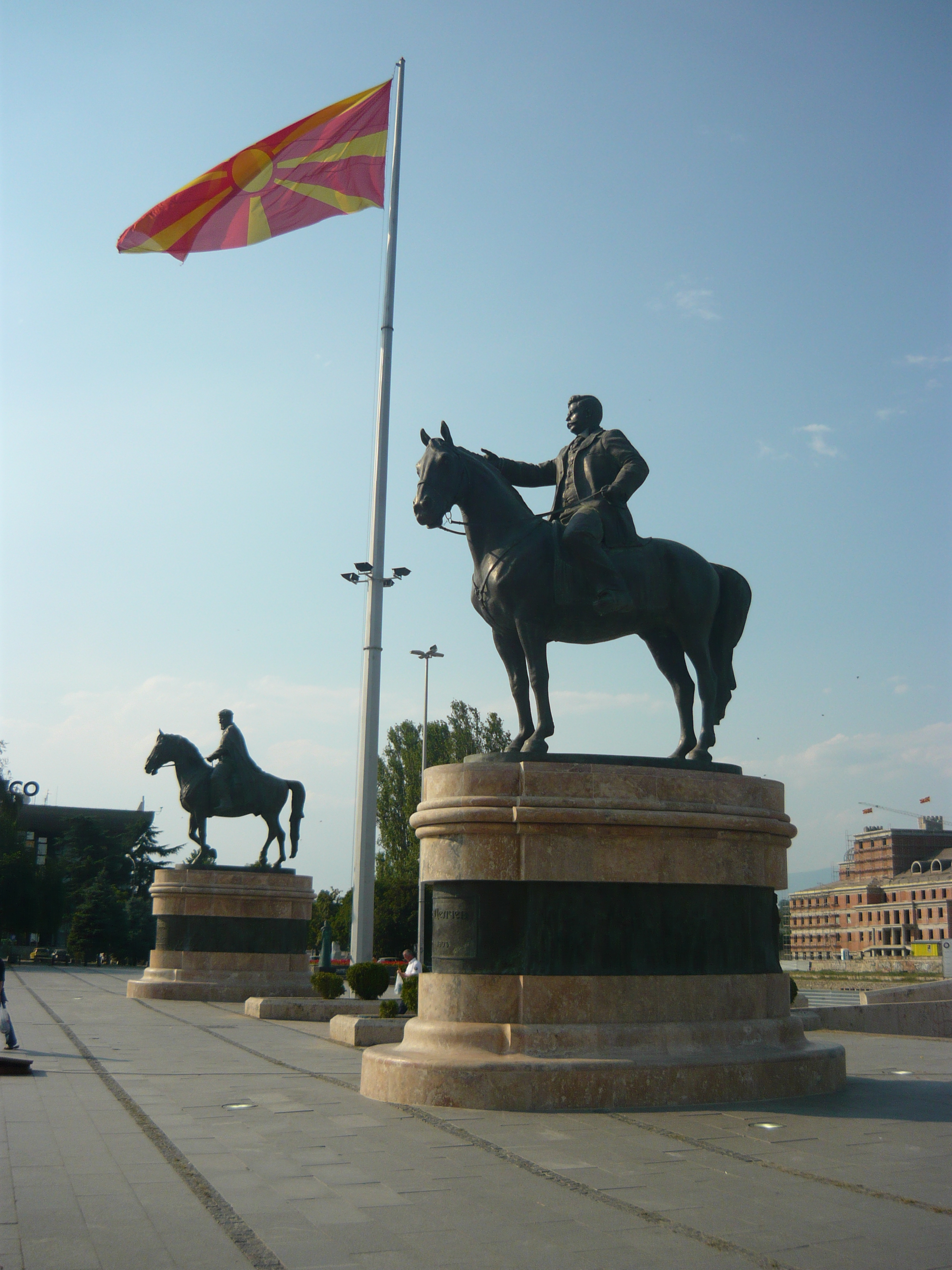 Monuments of Macedonian revolutionaries Goce Delcev and Dame Gruev on Macedonia Square in Skopje.